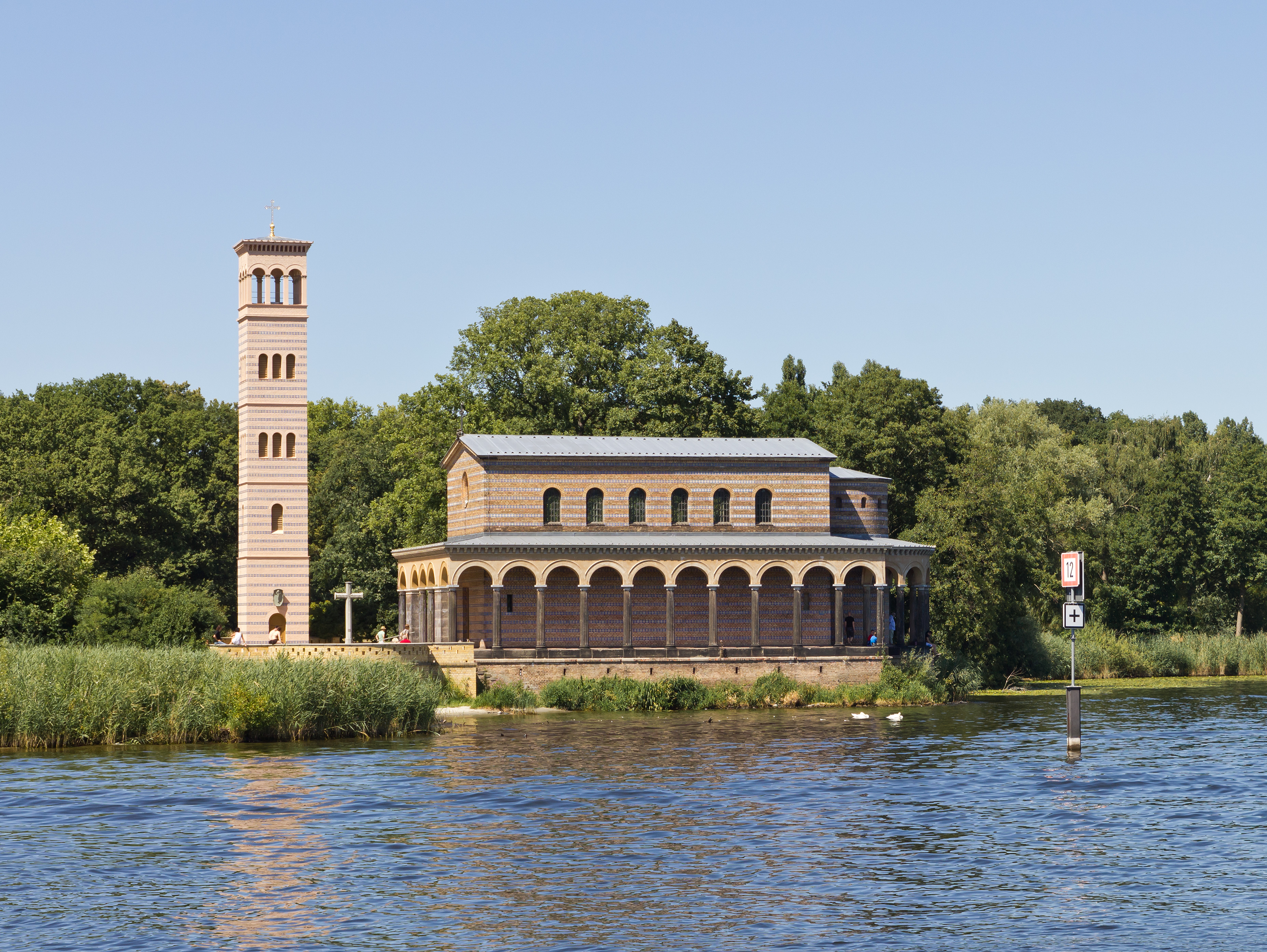 Church of the Saviour at the Port of Sacrow near Potsdam-Sacrow, Germany